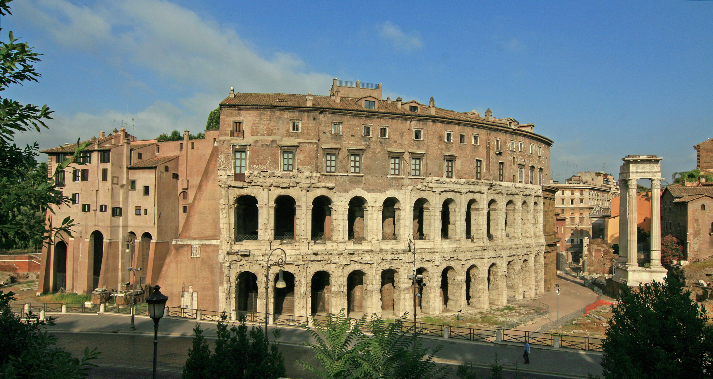 Theater of Marcellus, Rome.